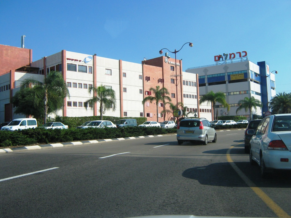 Econimy of Israel